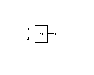 Elementary adder